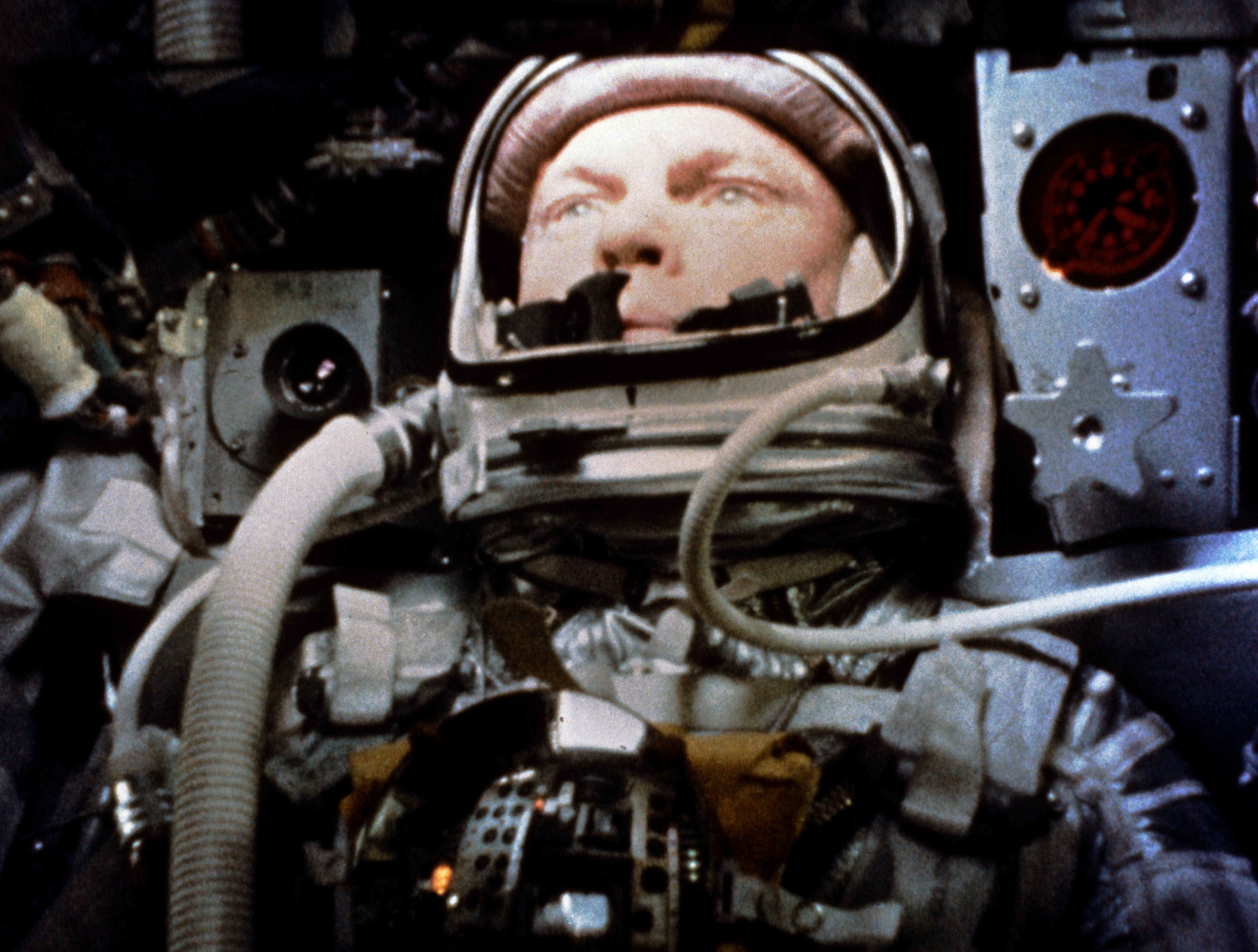 A camera aboard the "Friendship 7" Mercury spacecraft photographs Astronaut John H. Glenn Jr. during the Mercury-Atlas 6 spaceflight (00302-3); Photographs Glenn as he uses a photometer to view the sun during sunset on the MA-6 space flight (00304).